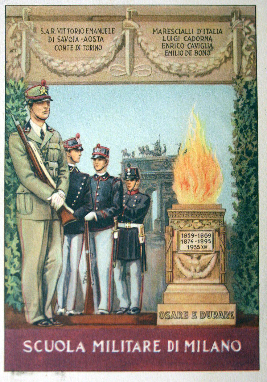 military psotcard of "scuola militare Teulie' Milan Italy